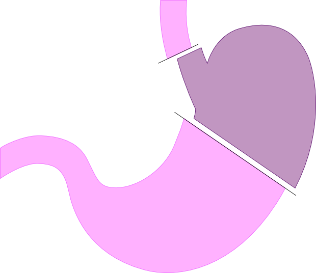 simple diagram of proximal gastrectomy